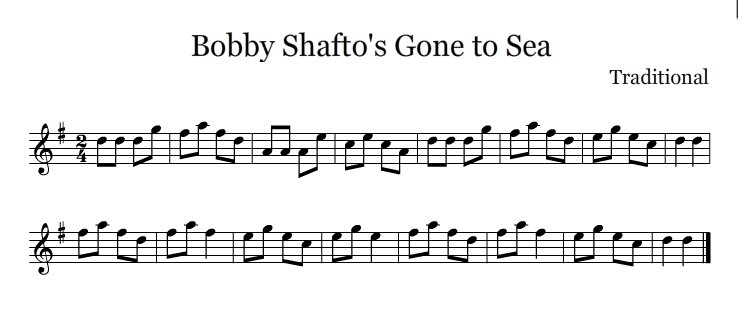 The main melody of "Bobby Shafto's Gone to Sea"